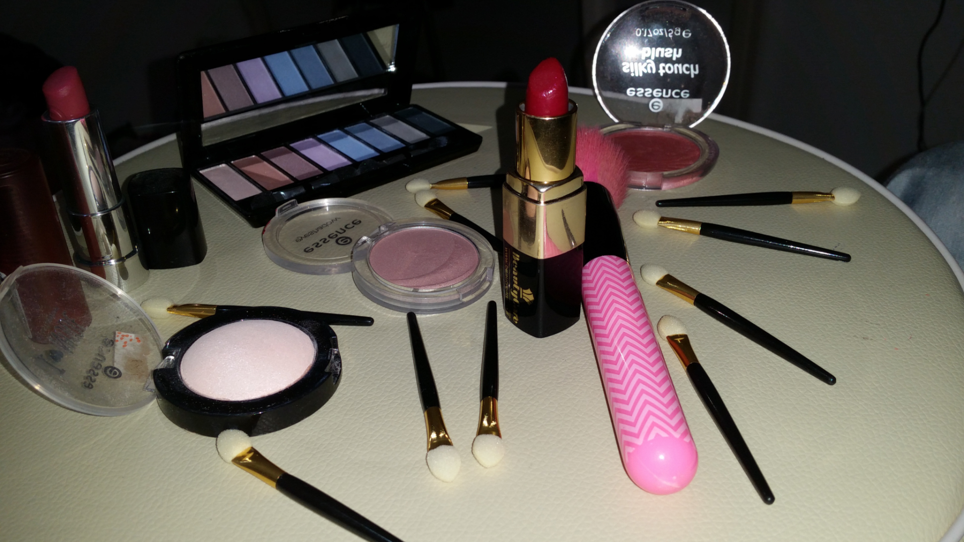 The picture shoes a variety of makeup products such as: makeup brush, blush, silhouettes and lipstick